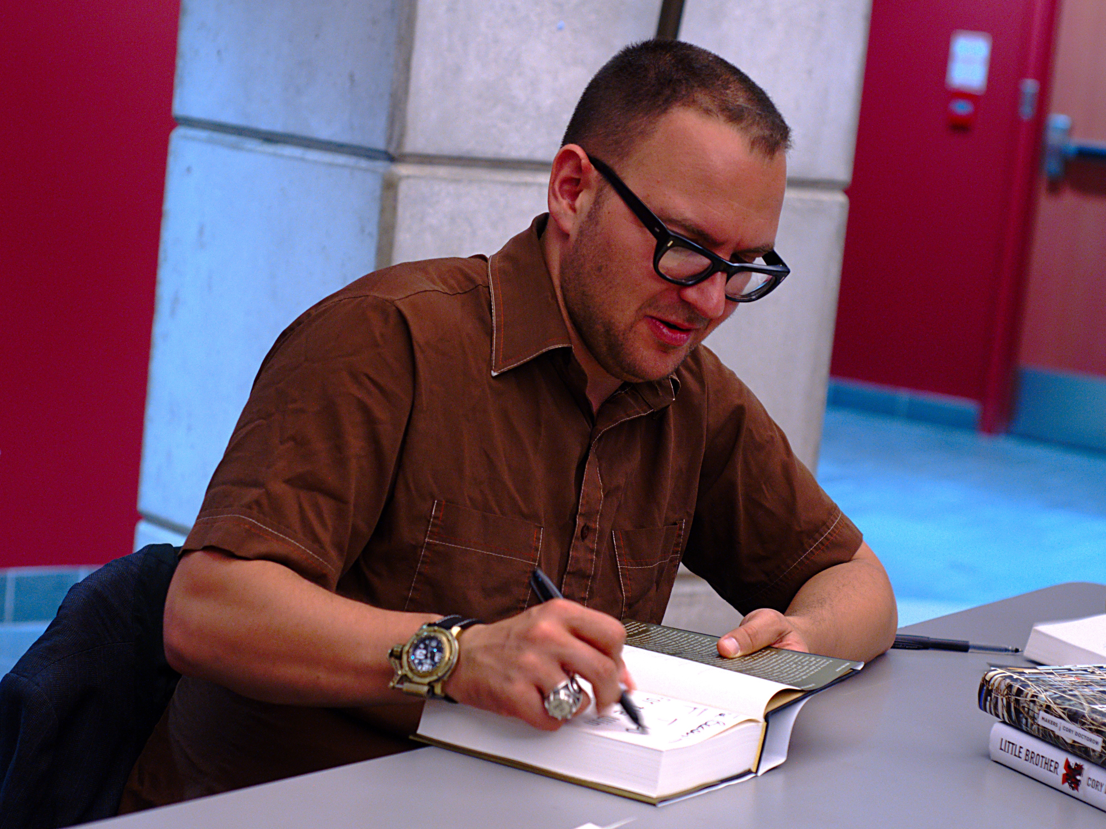 Cory Doctorow autographing a book